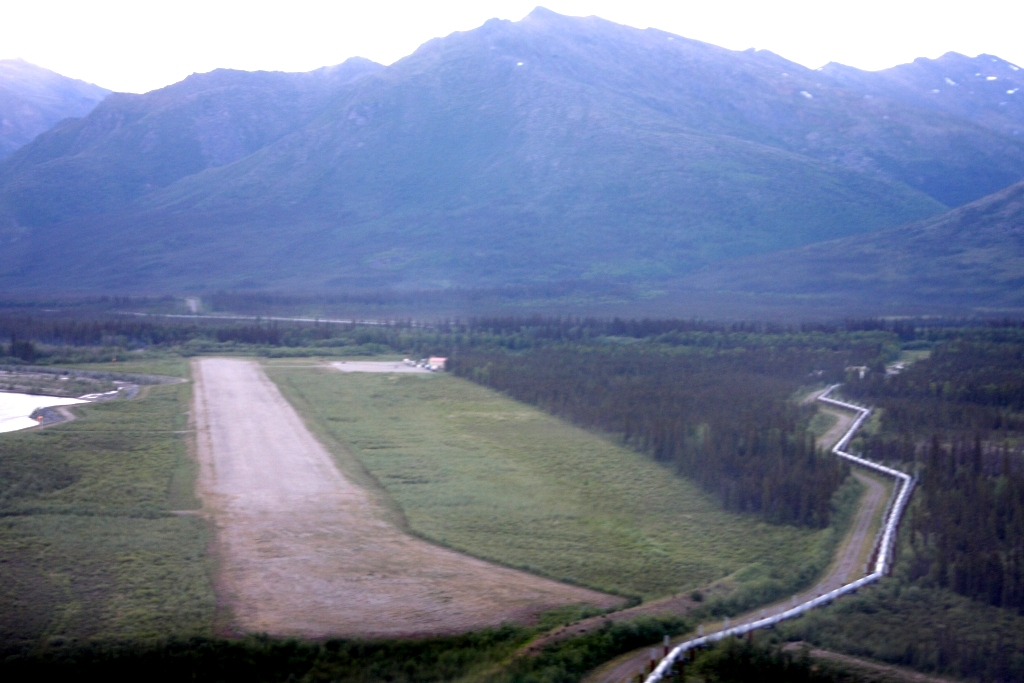 Coldfoot Airport, Alaska on approach to runway 1, June 20, 2008. The Trans-Alaska Pipeline passes nearby.